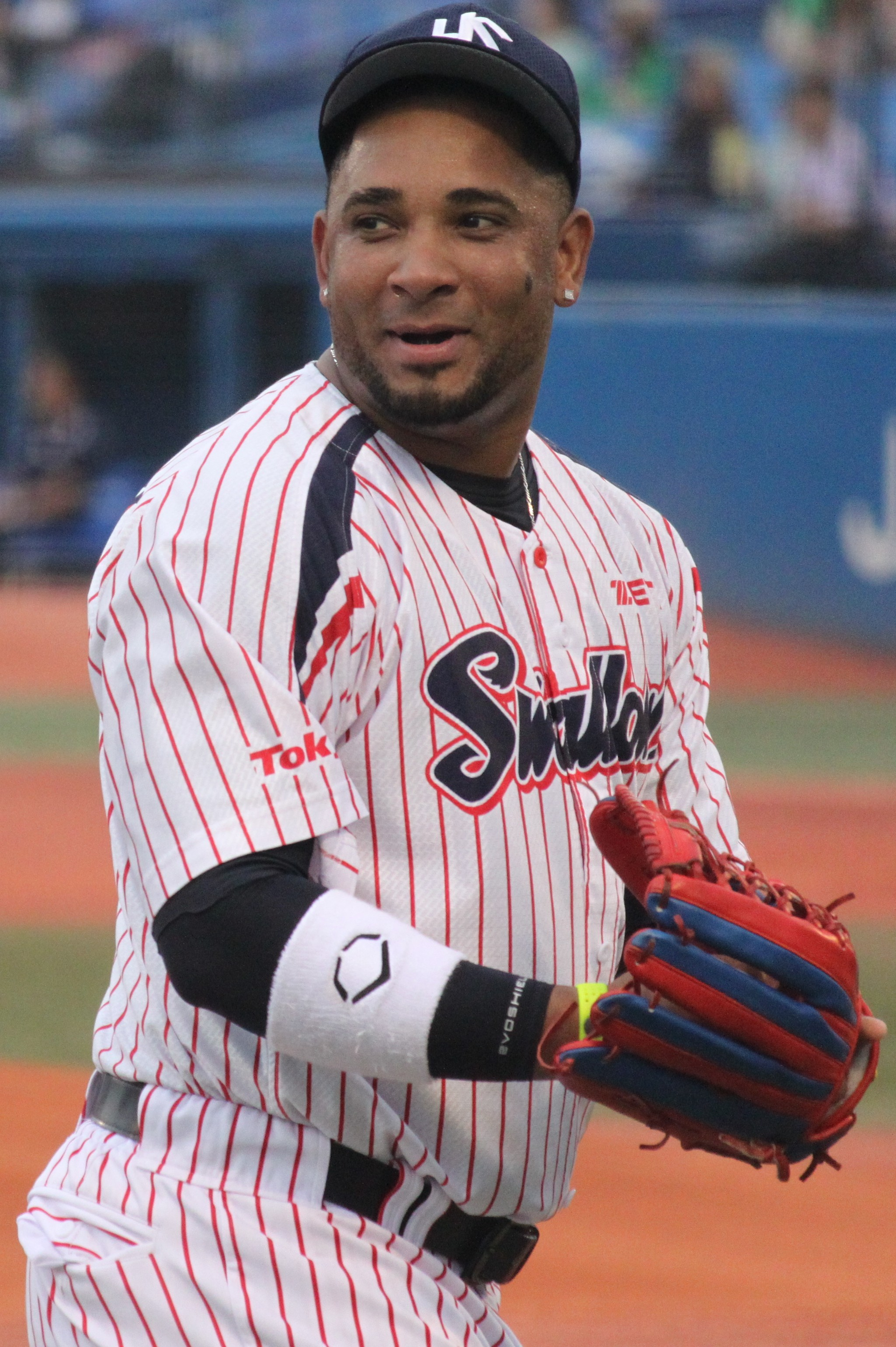 Wladimir Balentien, outfielder of the Tokyo Yakult Swallows, at Meiji Jingu Stadium.